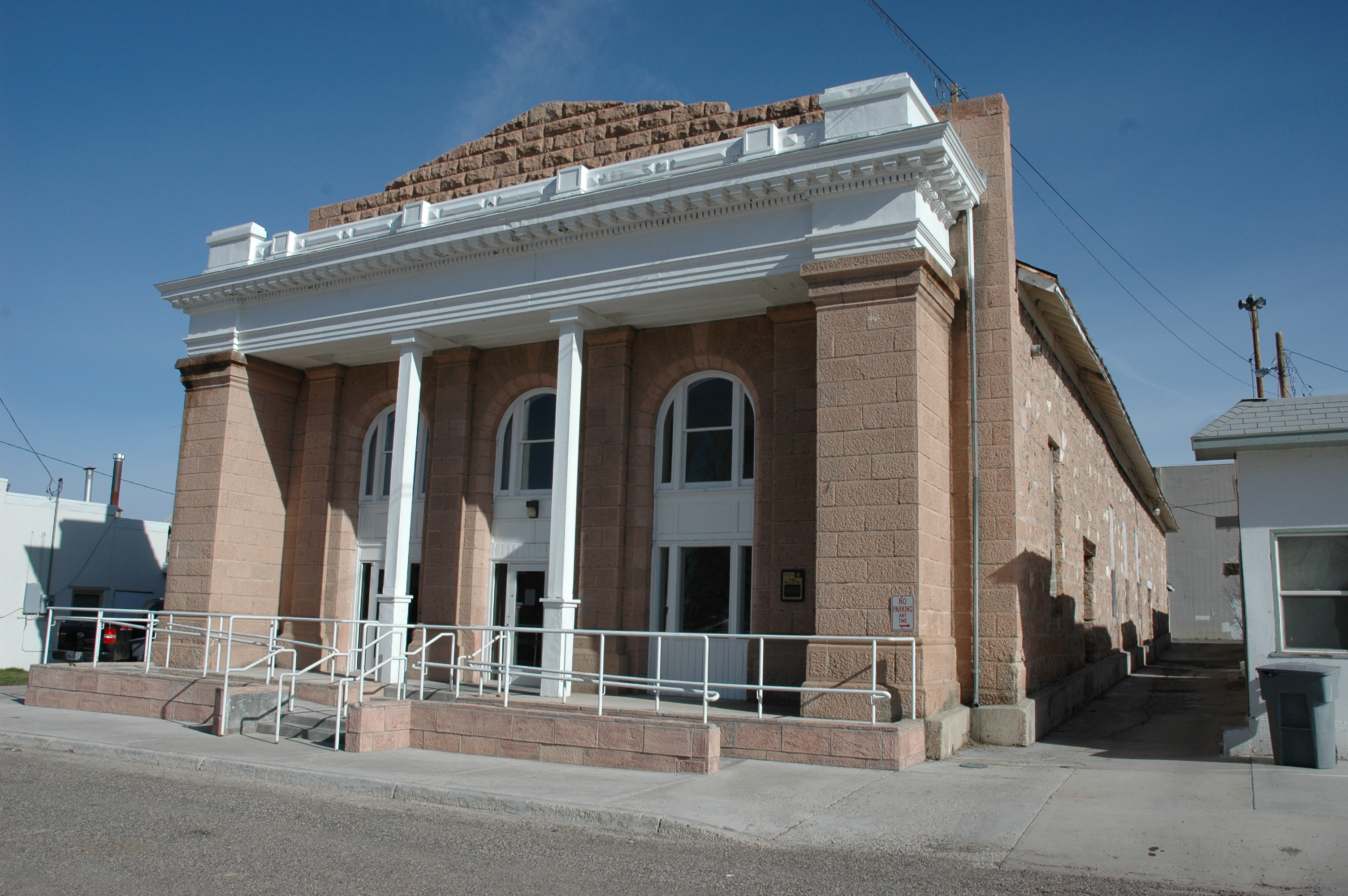 The Beaver Opera House, a historic building in Beaver, Utah, United States.